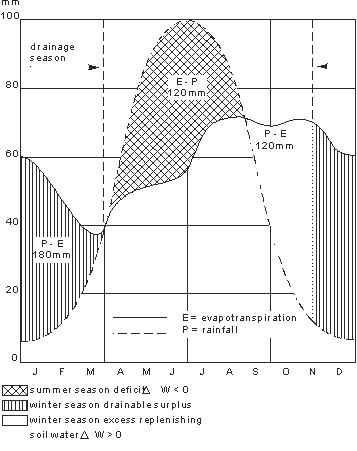 Rainfall, evaporation, water storage and drainage requirement in the Netherlands